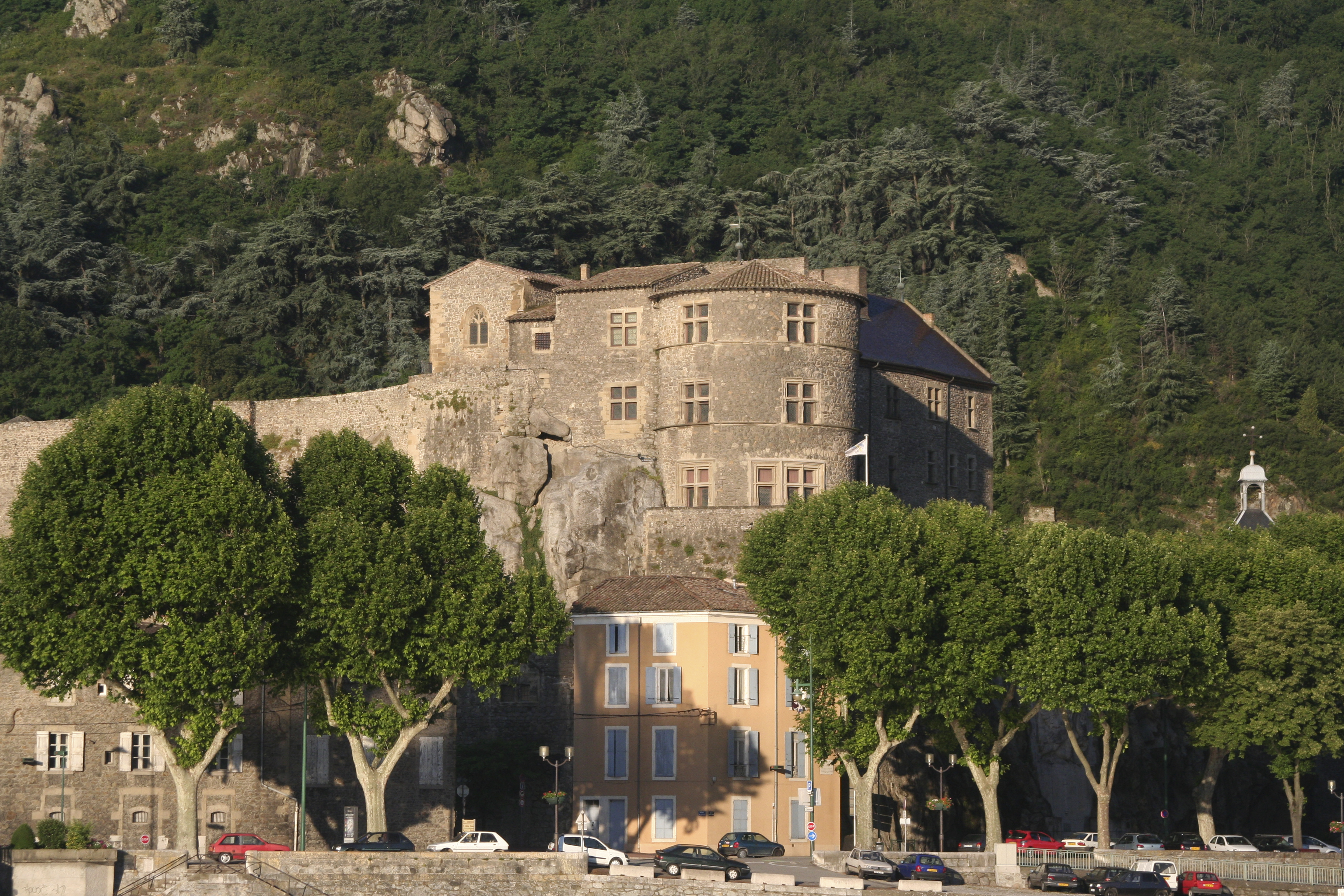 The Castle of Touron sur Rhône